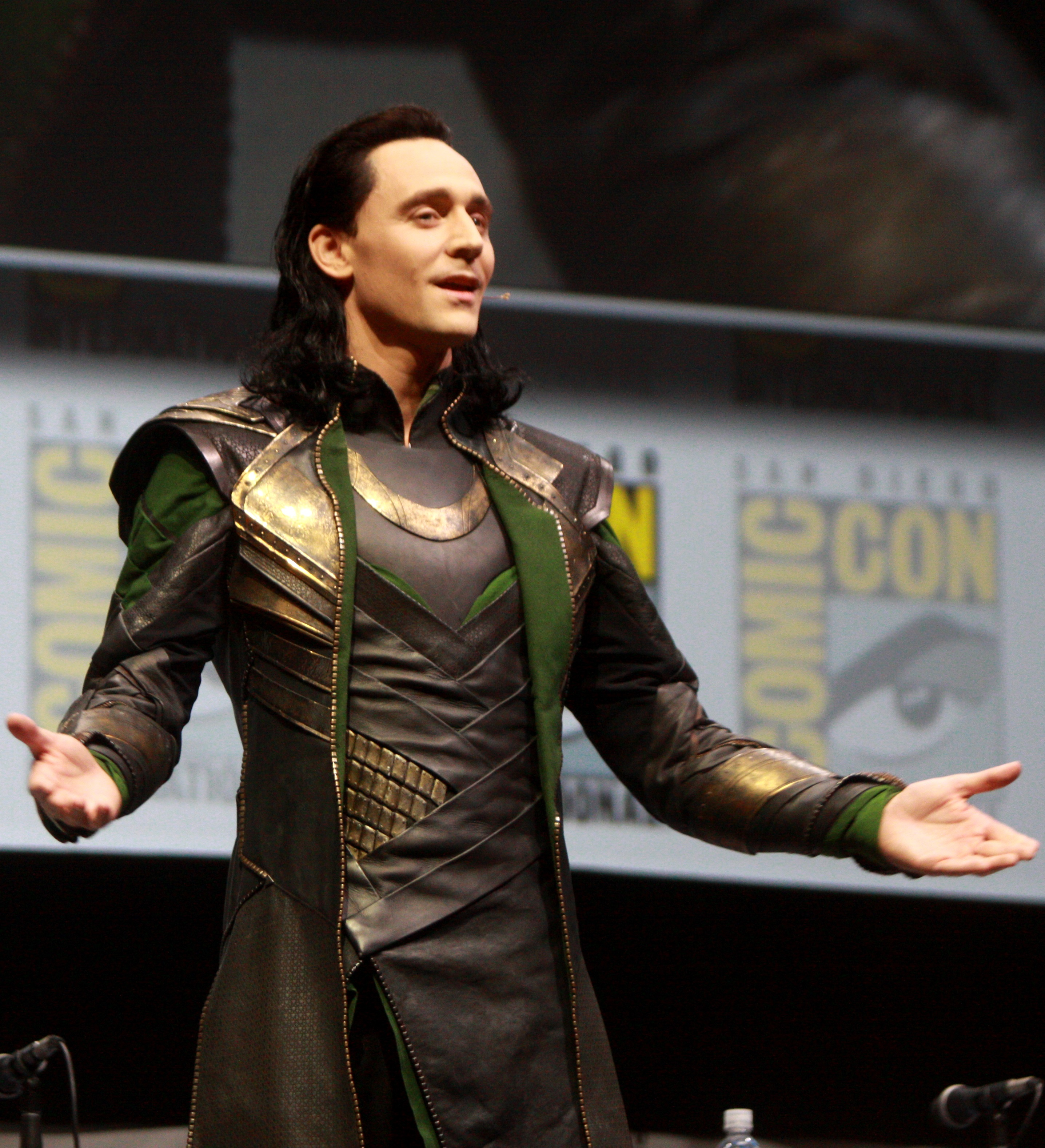 Cropped version of File:Tom Hiddleston, Loki (4).jpg.